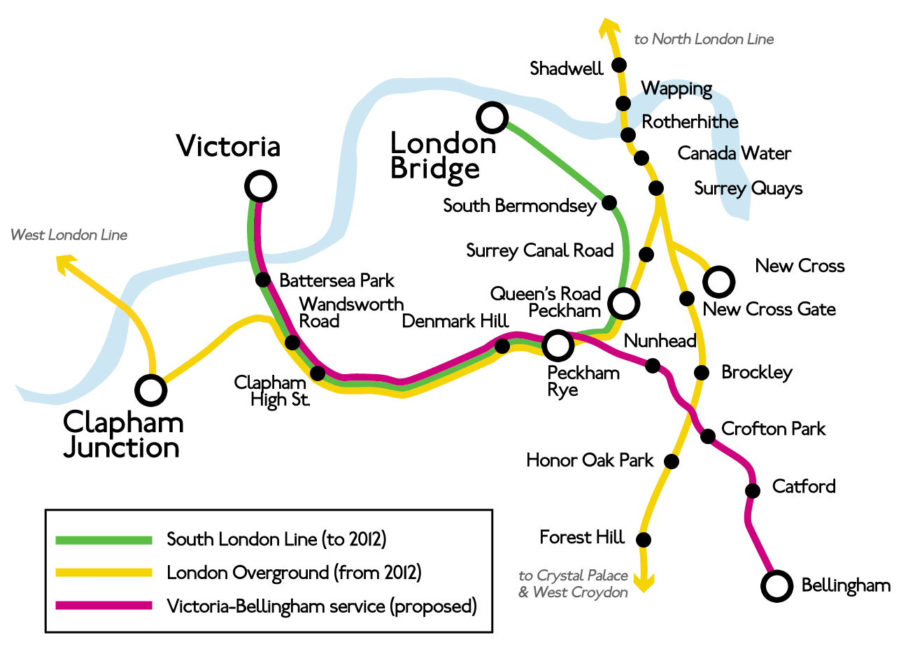 A diagrammatic map of the planned changes to the South London Line services, showing routes of the South London Line service to 2012, London Overground services from 2012, and the proposed Victoria-Bellingham service.